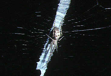 female Octonoba okinawensis with stabilimentum from Okinawa.